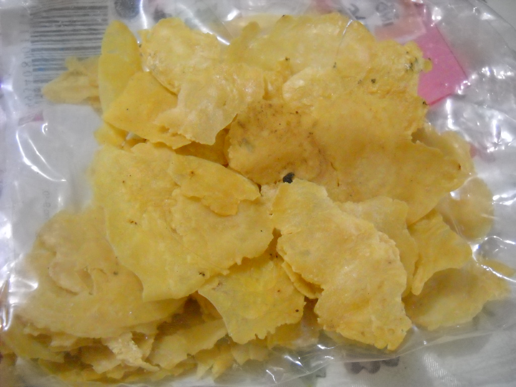 Raw emping or dry-flattened Gnetum gnemon nuts.